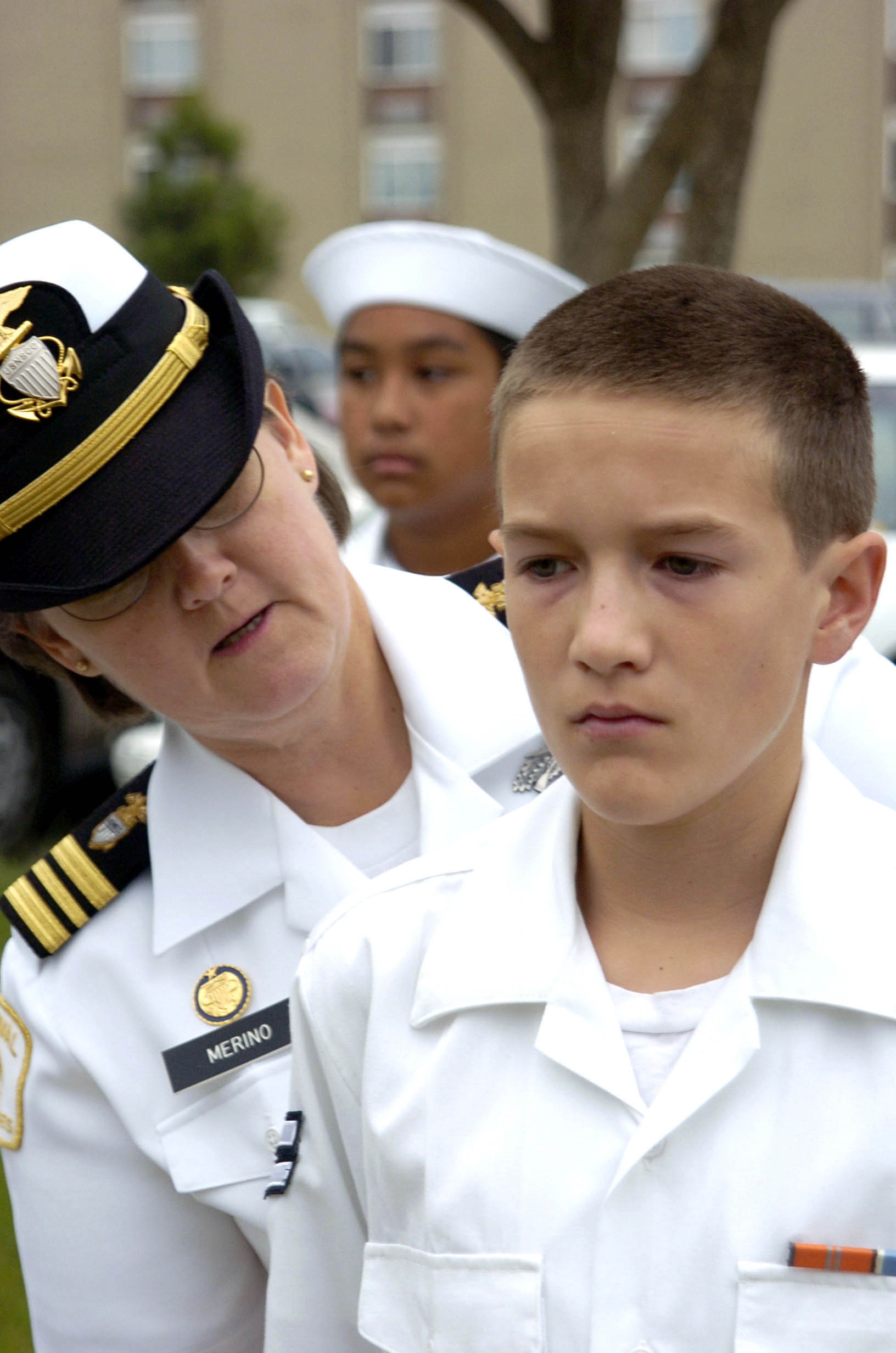 San Diego (Oct. 22, 2005) - A member of the Navy League Sea Cadet Corps (NLCC) stands an uniform inspection during the 2005 U.S. NLCC Flagship Competition at Naval Amphibious Base (NAB) Coronado. The competition is an annual event and Sea Cadet member’s range from ages 10 to 14. U.S. Navy photo by Journalist Seaman S. C. Irwin (RELEASED)